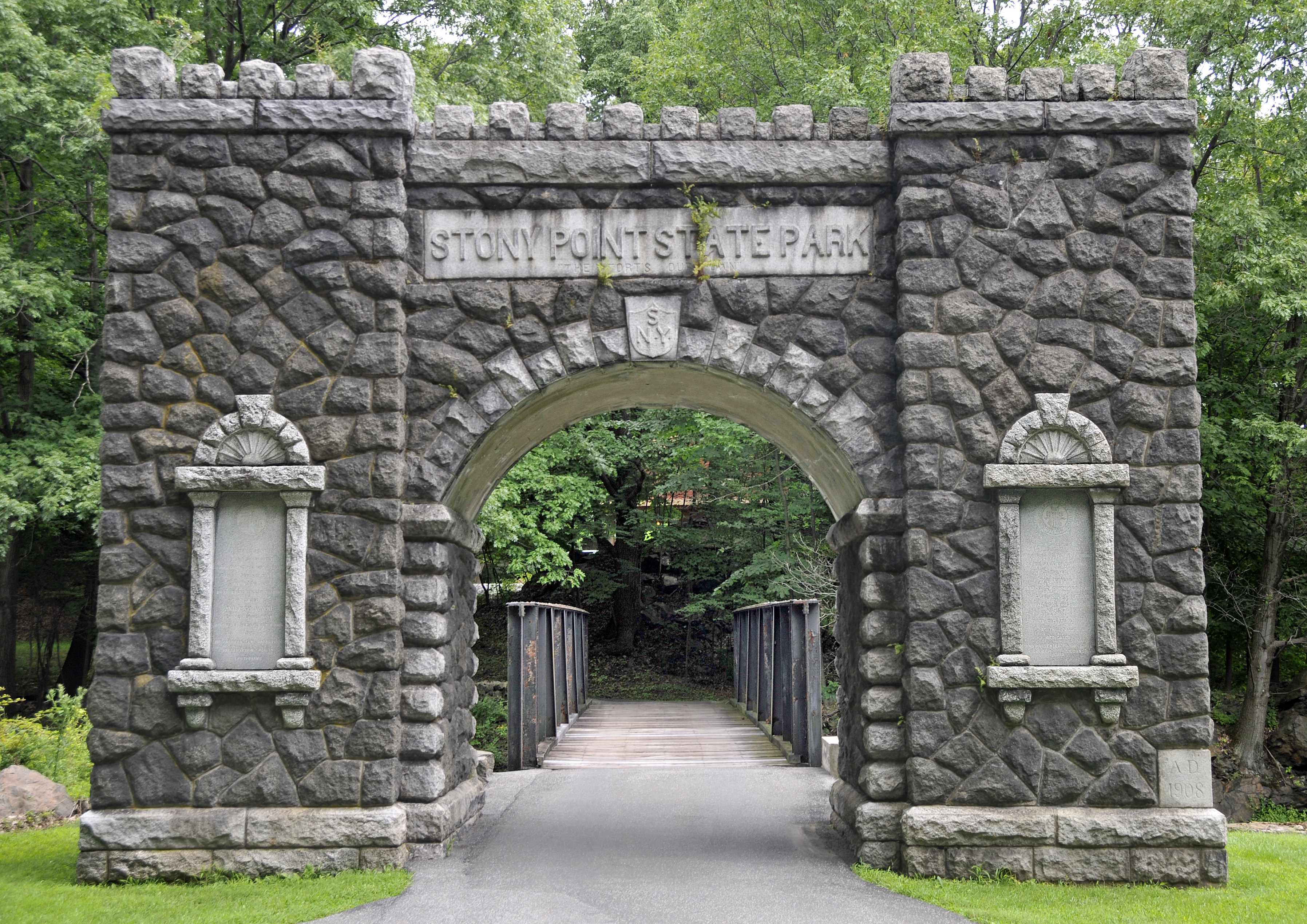 Visit the site of the Battle of Stony Point, one of the last major Revolutionary War battles in the northeastern colonies. This is where Brigadier General Anthony Wayne led his corps of Continental Light Infantry in a daring midnight attack on the British, seizing the site's fortifications and taking the British garrison as prisoners on July 16, 1779. By the late 1770s, the war had been raging for four years and both sides were eager for a conclusion. Sir Henry Clinton, commander of the British forces in America, attempted to coerce General George Washington into one decisive battle to control the Hudson River. As part of his strategy, Clinton fortified Stony Point. Washington devised a plan for Wayne to lead an attack on the fort. Armed with bayonets only, the infantry captured the fort in short order, ending British control of the river. The site features a museum, which offers exhibits on the battle and the 1826 Stony Point Lighthouse, as well as interpretive programs, such as reenactments highlighting 18th century military life, cannon and musket firings, cooking demonstrations, and children's activities. source: State of New York